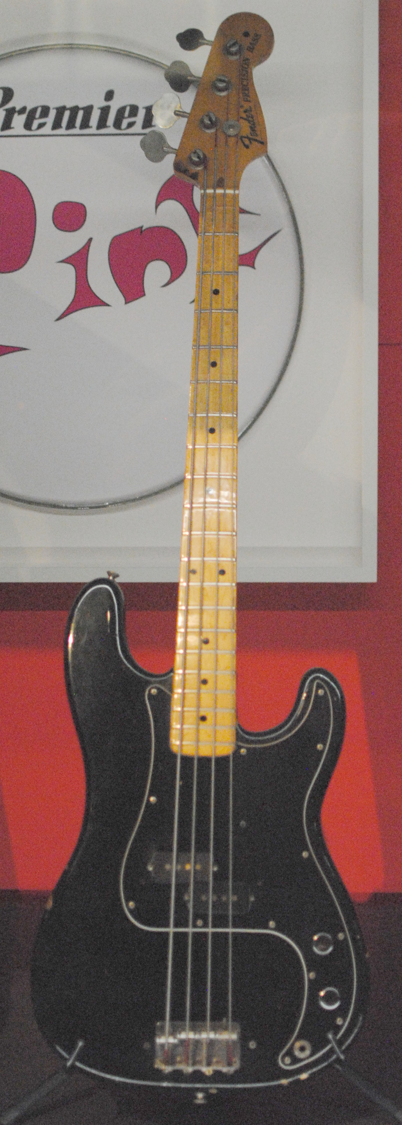 displayed at the Pink Floyd: Their Mortal Remains exhibition at the Victoria and Albert Museum.